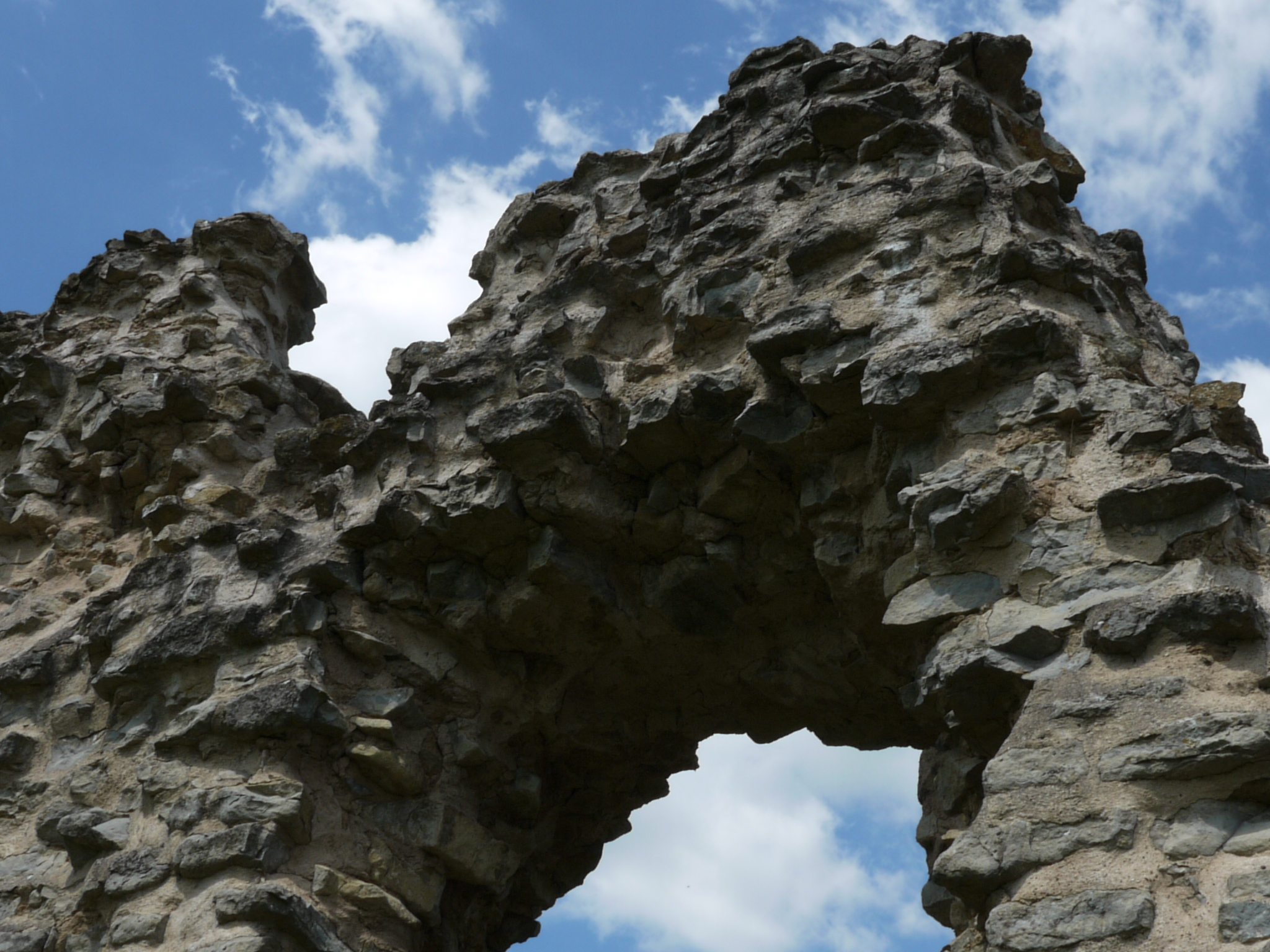 Nomeny, Lorraine region, France. Ruins of Nomeny castle, build after 1382, destroyed in 1636/1672.